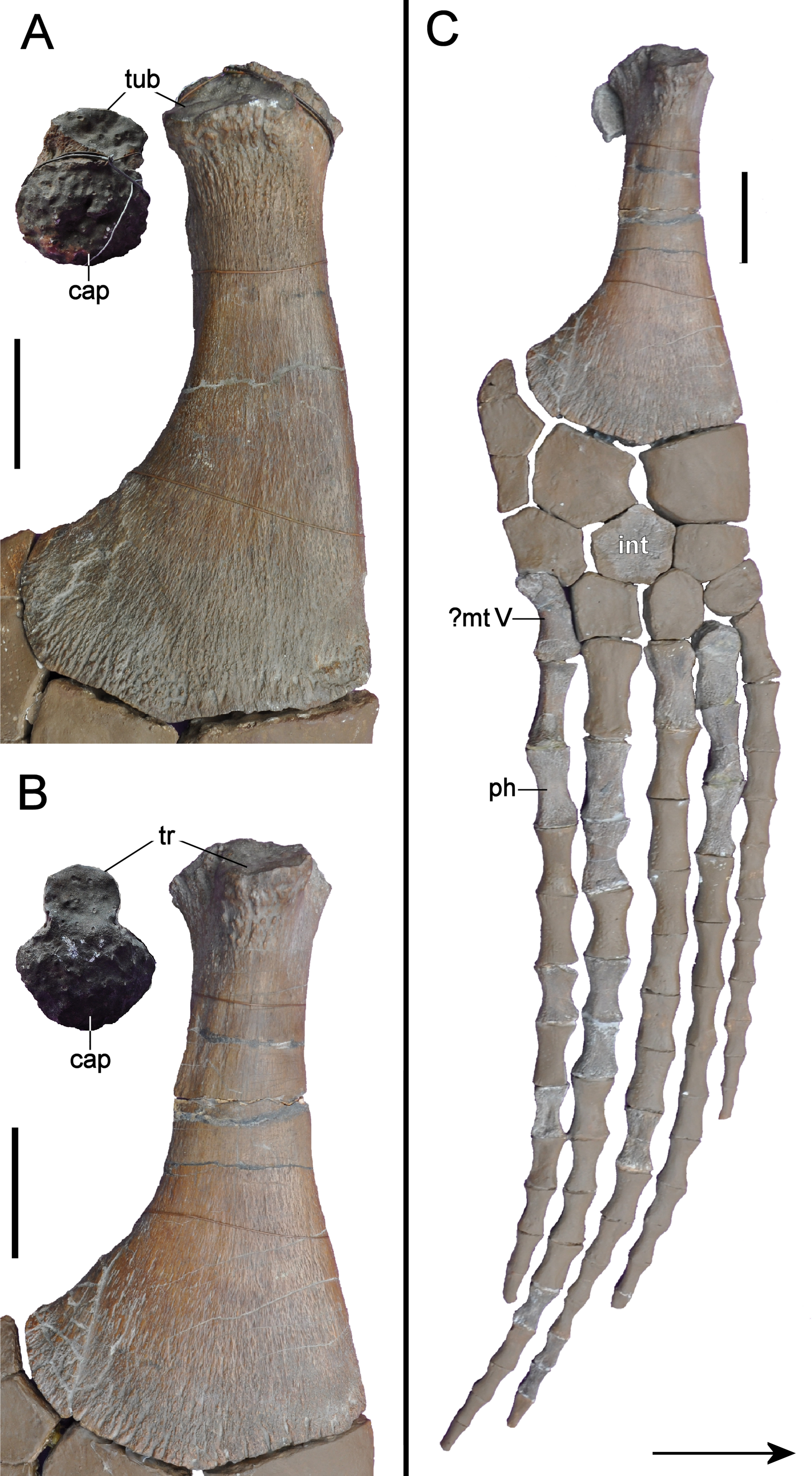 Brancasaurus brancai, GPMM A3.B4 (holotype), appendicular elements. (A) Right humerus in dorsal and articular views. (B) Right femur in dorsal and articular views, and (C) Right pelvic limb in dorsal view. Scale bars = 50 mm. The arrow points towards cranial. Abbreviations: cap, capitulum; int, intermedium; mt V, possible metatarsal V; ph, phalange; tr, trochanter; tub, tuberosity.